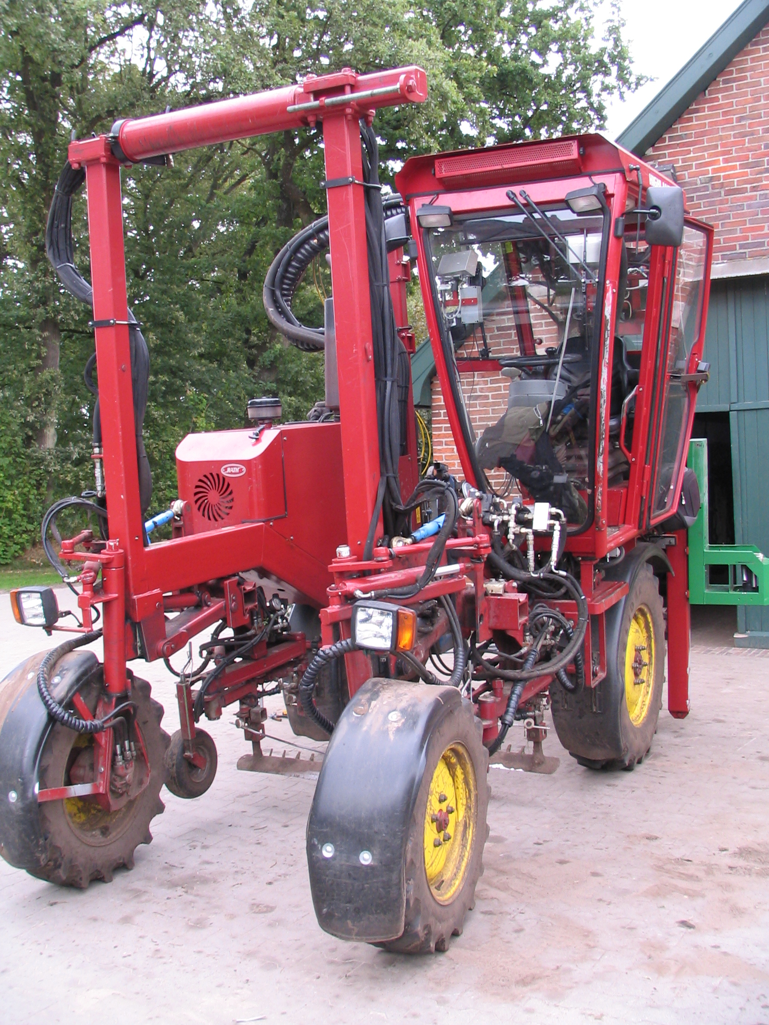 Asymmetric high clearance nursery tractor